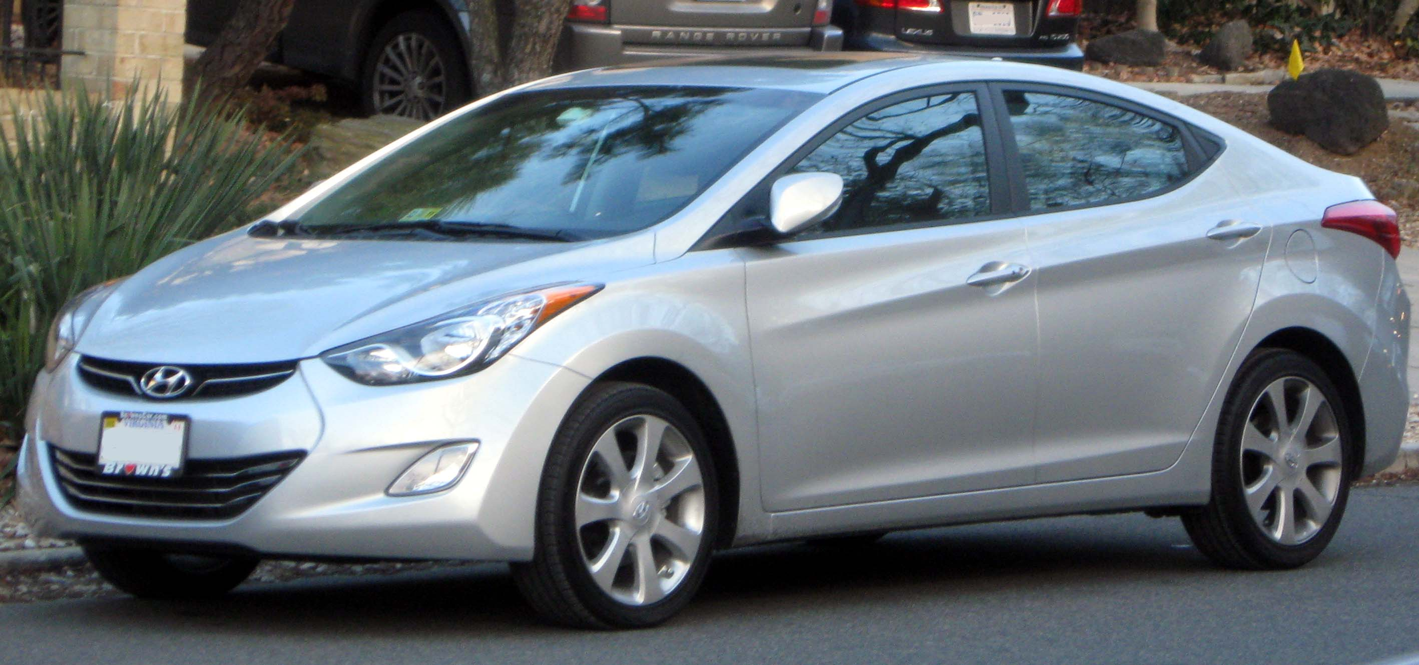 2011 Hyundai Elantra photographed in Washington, D.C., USA.